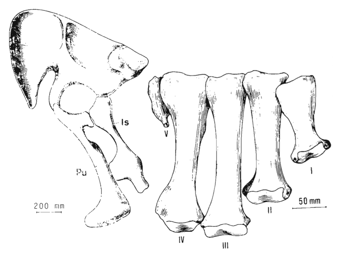 Fig. 1. Segnosaurus galbinensis Perle, 1979; holotype (GIN 100/80); Amtgay, SE Mongolia, Bayan, Shireh svita, Upper Cretaceous: left lateral view of pelvis, right dorsal view of metatarsus; is ischium, pu pubis.